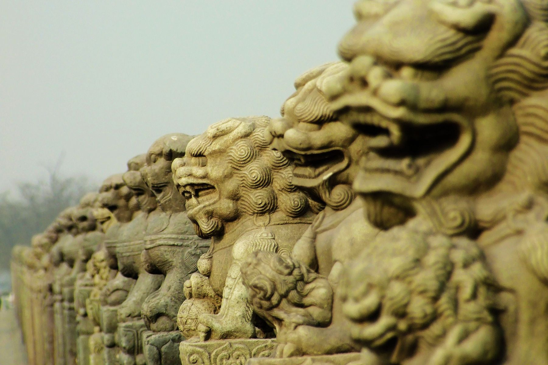 the close-up picture on Lugou Bridge lions 中文（中国大陆）: 卢沟桥狮子，特写